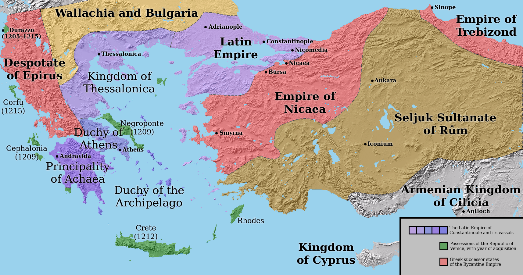 The Latin Empire and the Partition of the Byzantine Empire after the 4th crusade, c. 1204; borders are approximate.